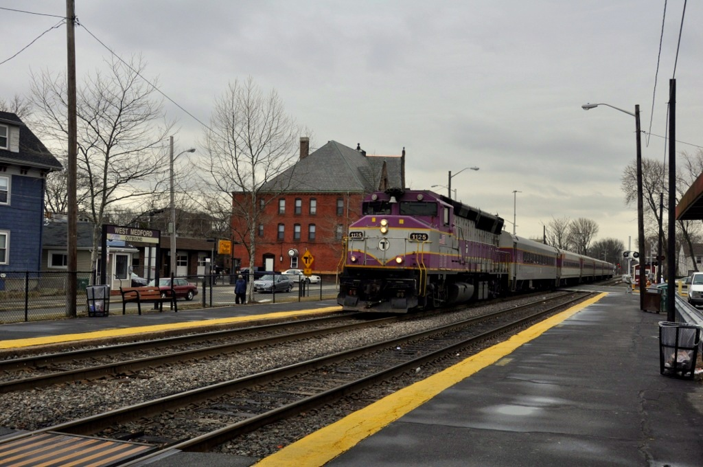 An outbound train arrives at the West Medford MBTA Commuter Rail station.